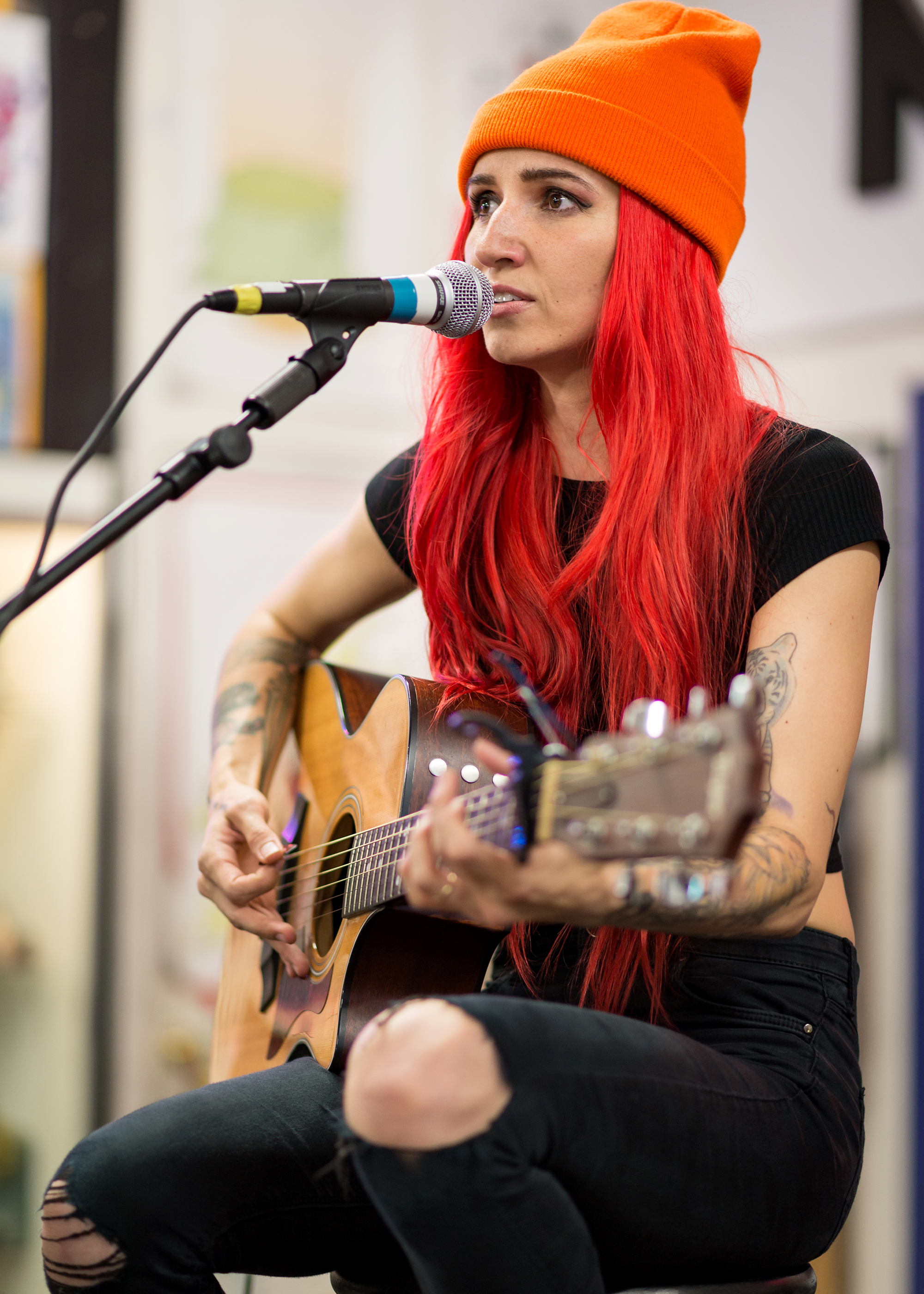 Lights (Valerie Poxleitner) performing live at Meltdown Comics in West Hollywood, Los Angeles, California, on Wednesday, September 20, 2017. This was an in-store signing and performance to promote the release of her new album and comic book series (both entitled "Skin&Earth").